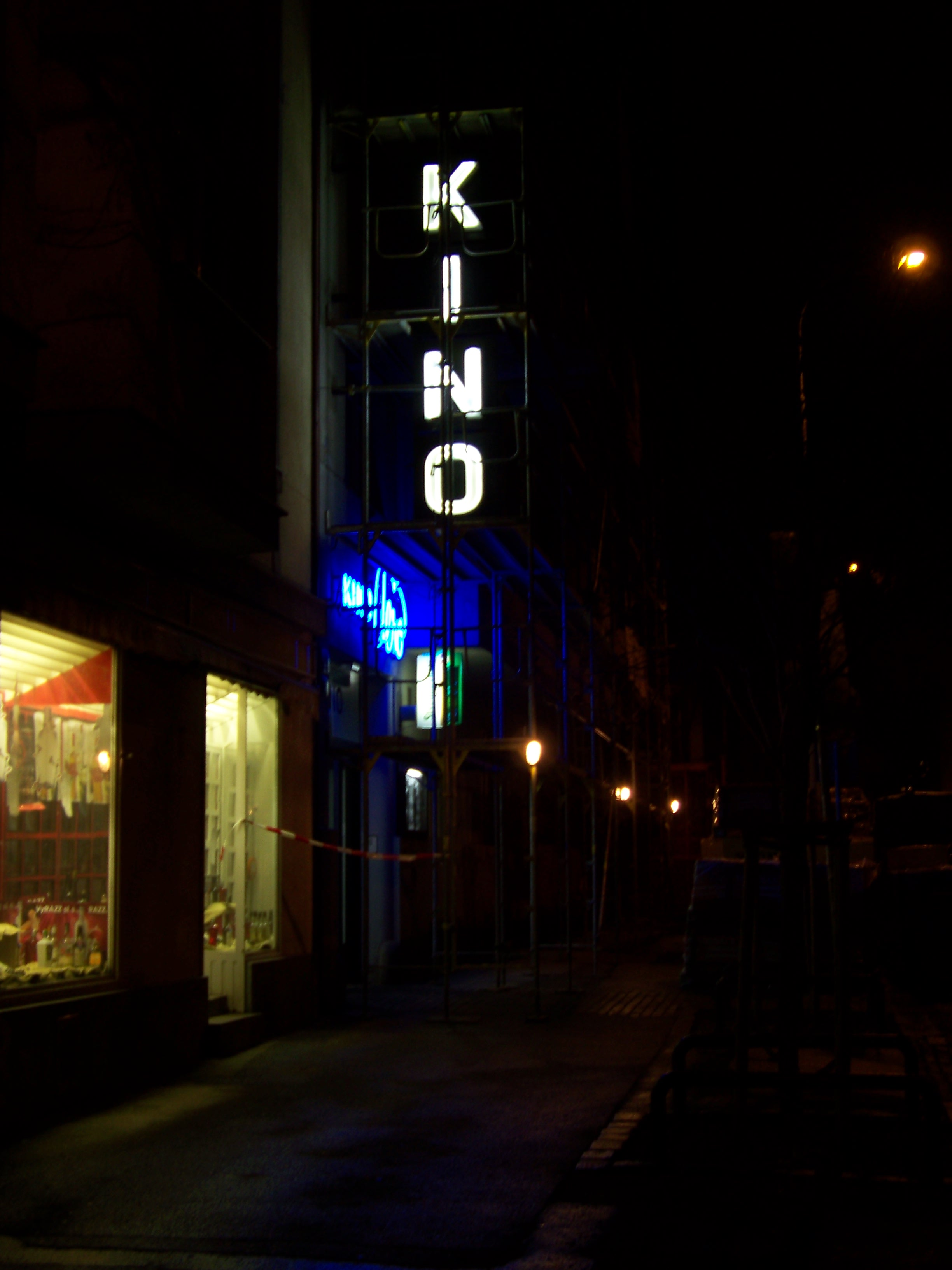 Žižkov, Prague, the Czech Republic. Biskupcova Street, Aero Cinema.